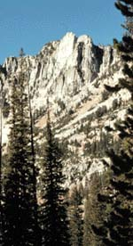 Eagle Cap Wilderness in the Wallowa-Whitman National Forest in northeast Oregon, USA